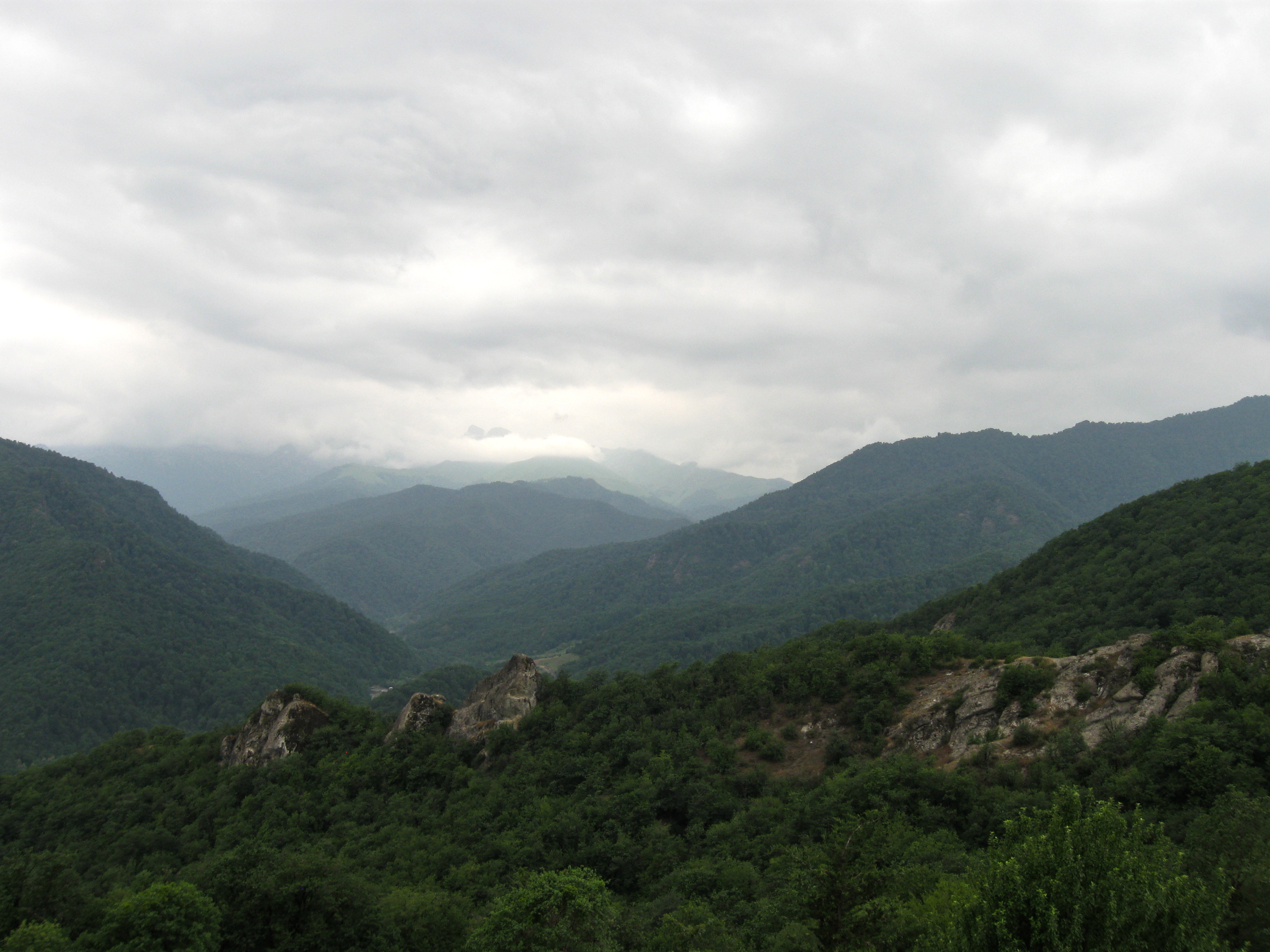 Dadivank mountains, 2 136 m, Kalbajar, Nagorno-Karabakh Republic.